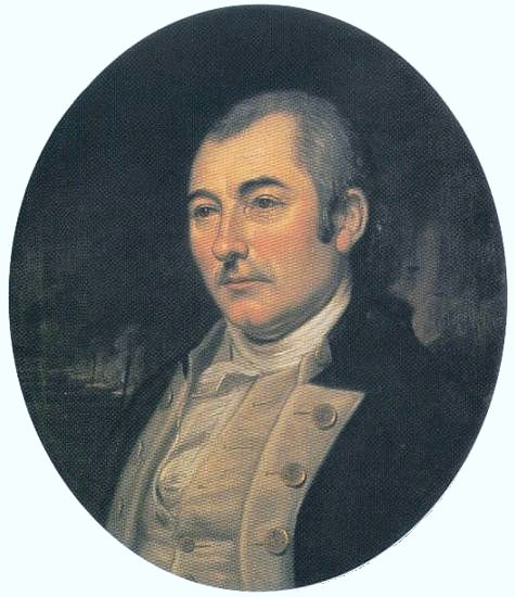 John Hazelwood (1726-1800) commanded the Pennsylvania Navy in 1777. The portrait is by Charles Willson Peale (1741-1827).